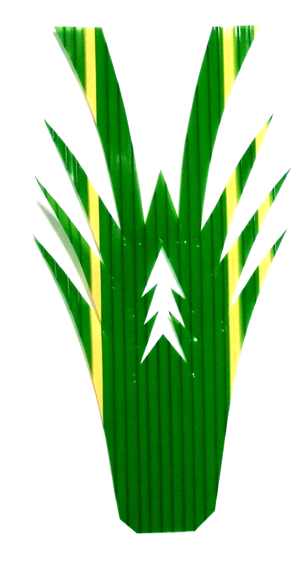 Sasa-noha used in Sushi. Photo taken in Tokyo Japan.